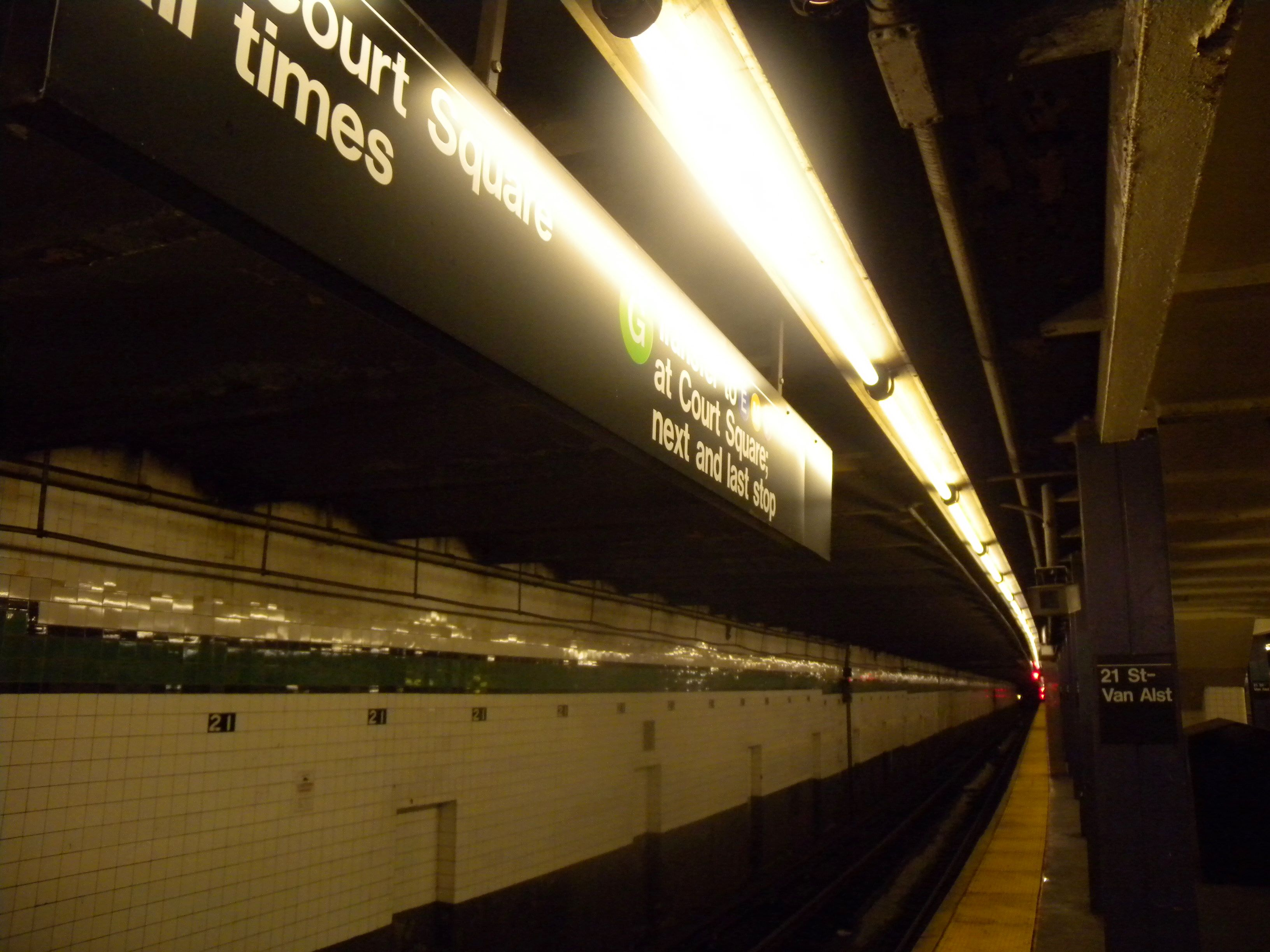 Looking southwest at northbound track of VanAlst Station.